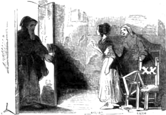 The most famous Italian historical romance,and the masterpiece of Alessandro Manzoni.